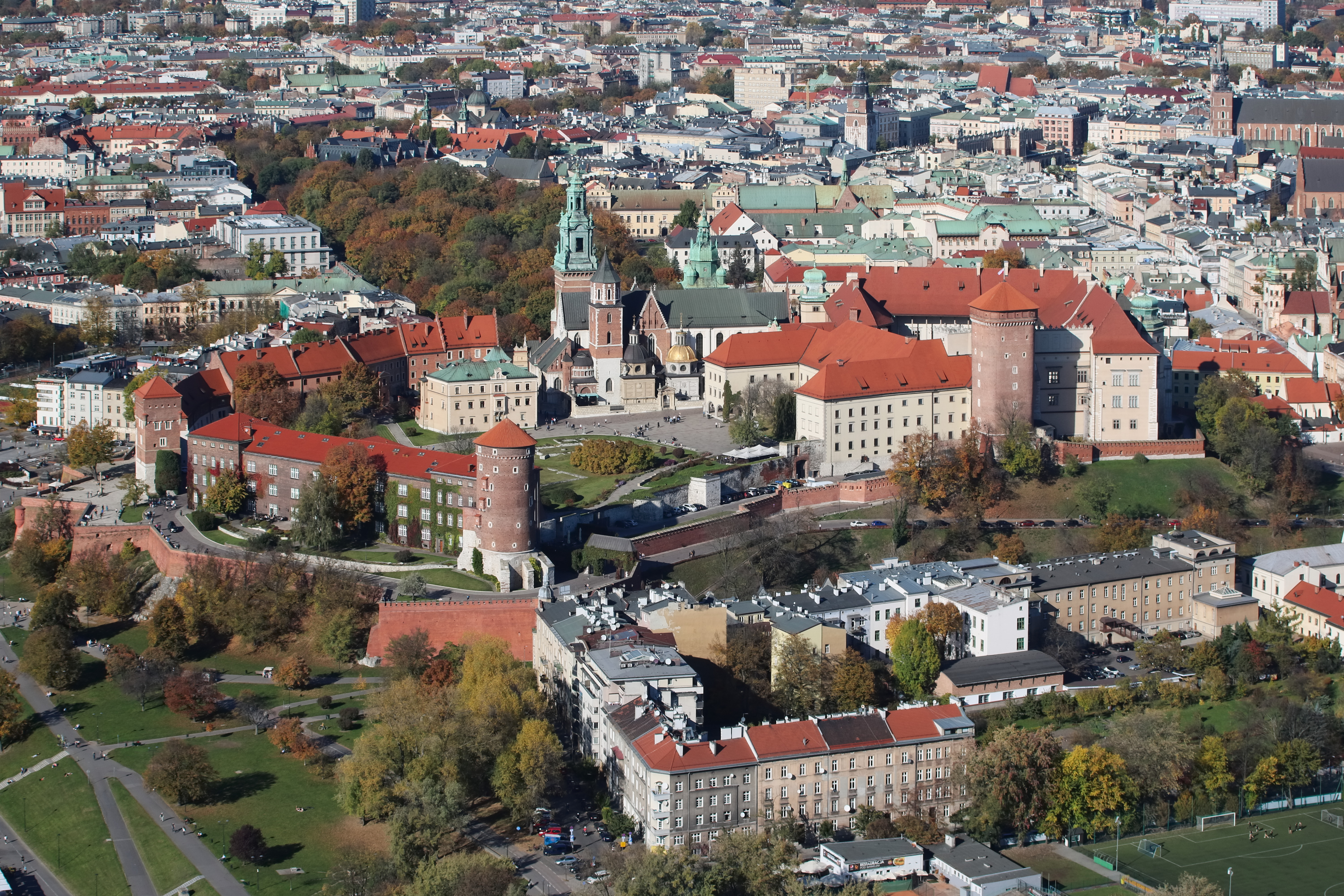 Krakow - Wawel from captive balloon